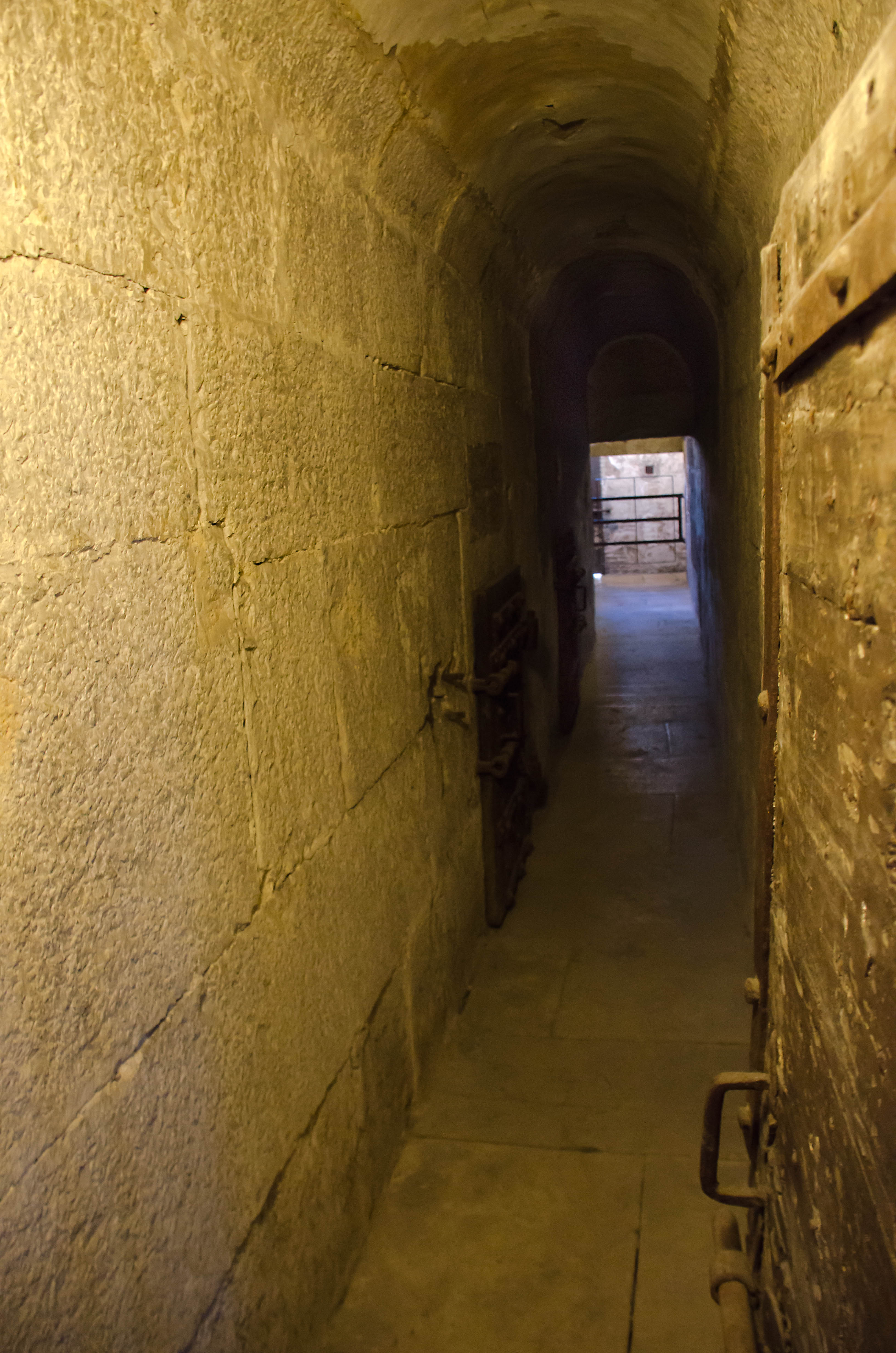 Hallway in the jail of the Doge's Palace, Venice